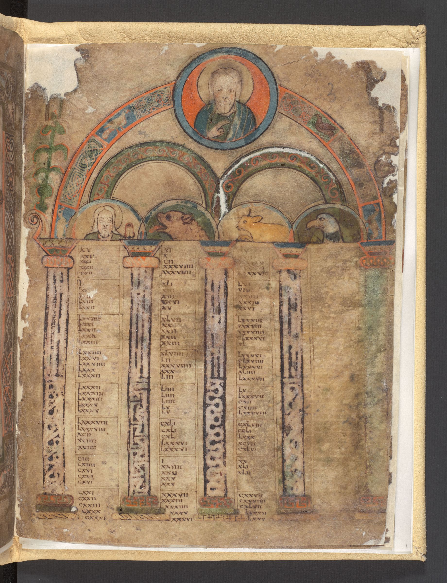 Codex Eyckensis. Folio from the Codex A. Canon tables, evangelist symbols.